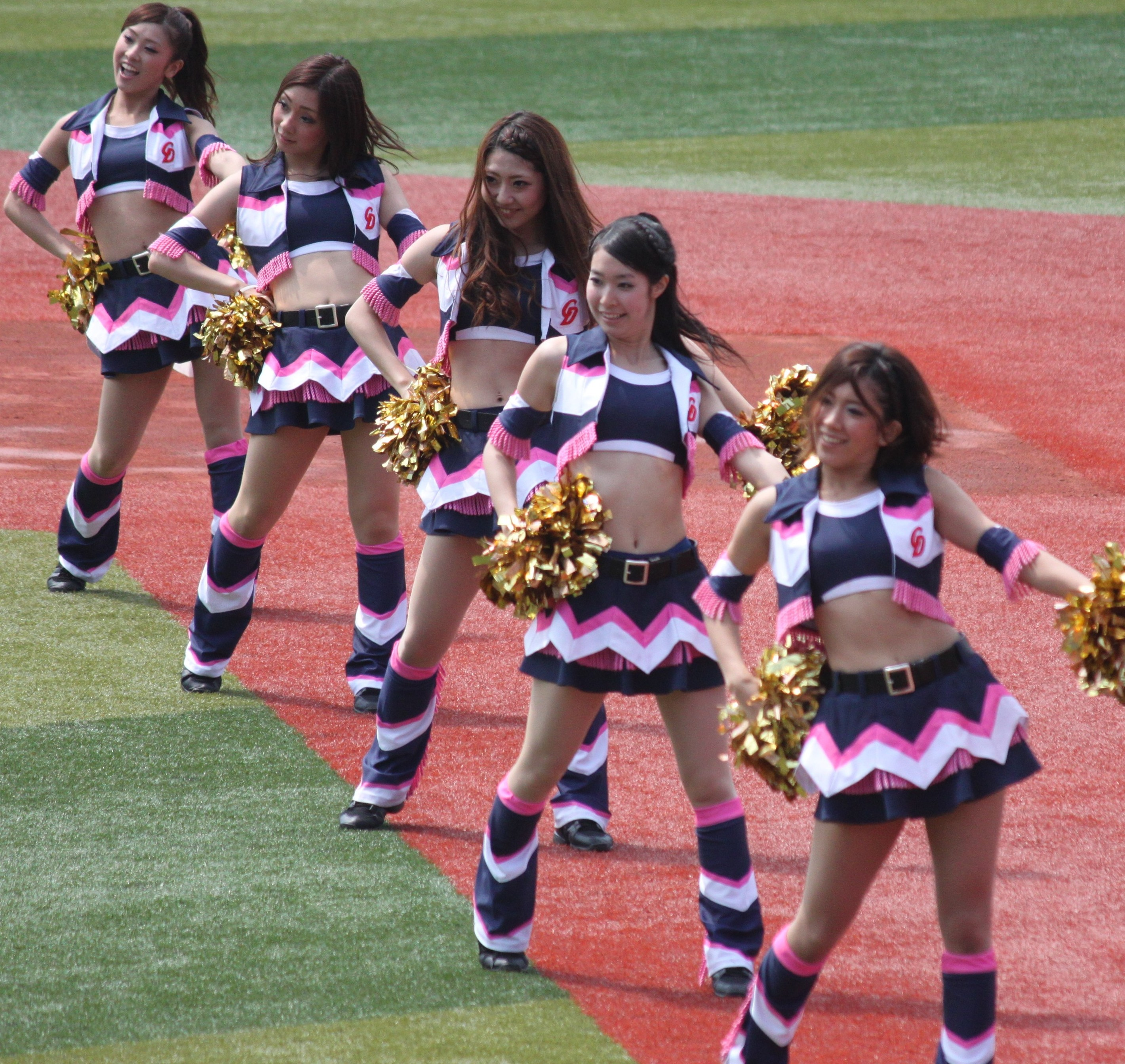 Cheer Dragons, cheer team of the Chunichi Dragons, at Yokohama Stadium